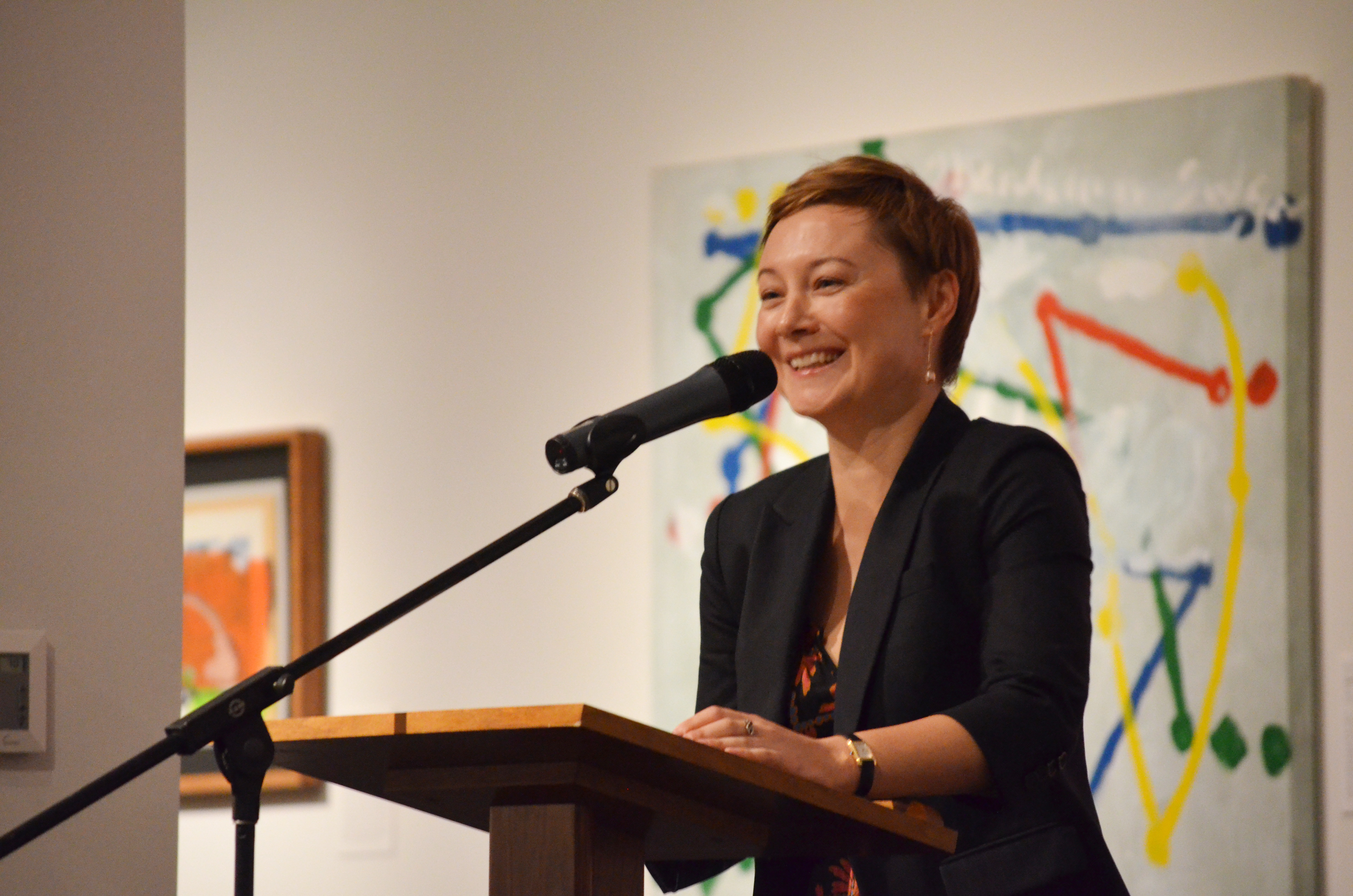 Poet Valzhyna Mort reading at the 2015 Neustadt Festival opening night. Poets Amit Majmudar, Valzhyna Mort, Nii Ayikwei Parkes, and Wang Ping opened the night, and then novelists Padma Viswanathan and Alison Anderson followed. Oklahoma writers Nathan Brown and Rilla Askew introduced the readers. The reception was in the Sandy Bell Gallery at the Fred Jones Jr. Museum of Art. Photo by Tyler Christian.